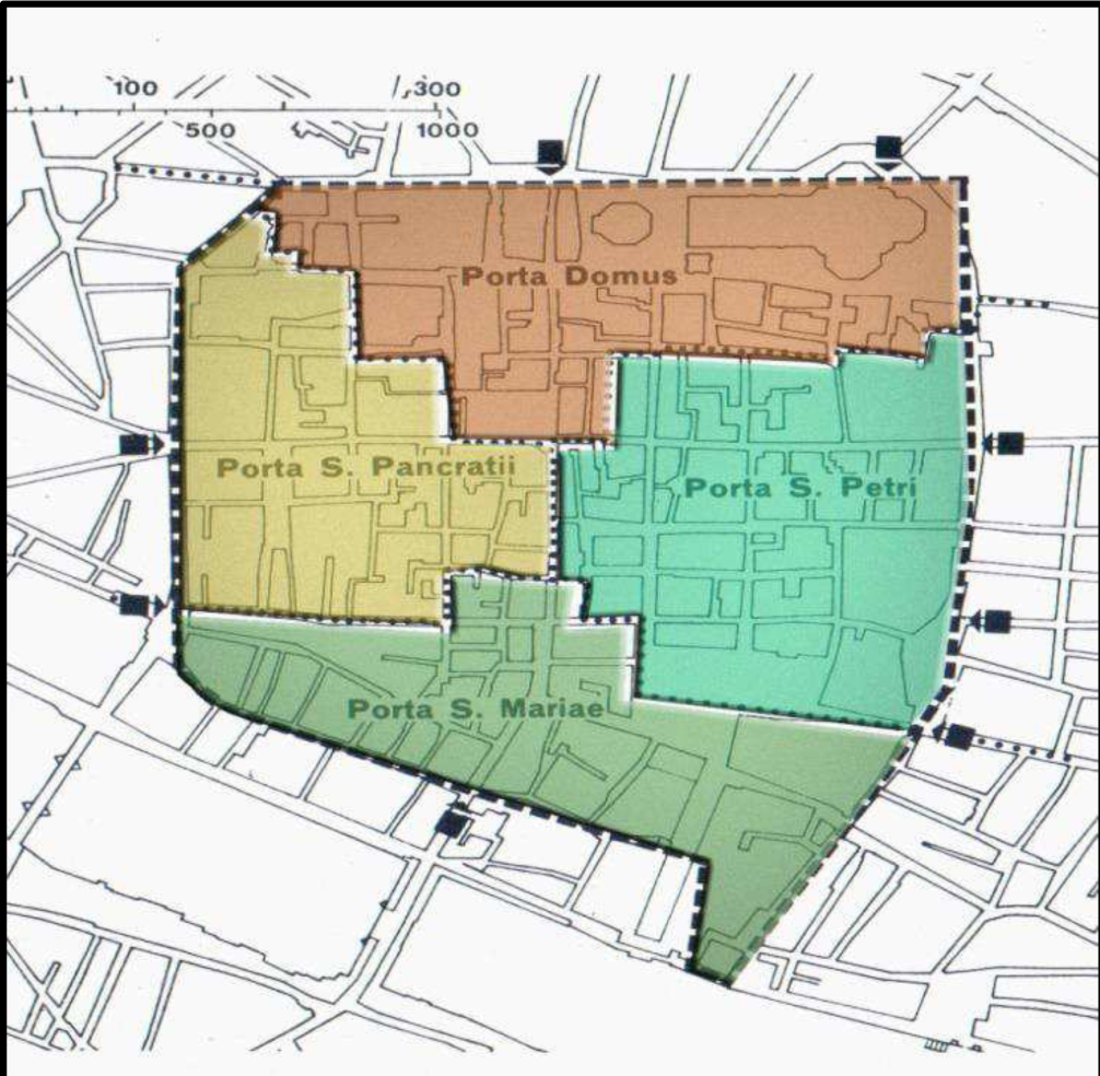 Old map of the discricts of Florence